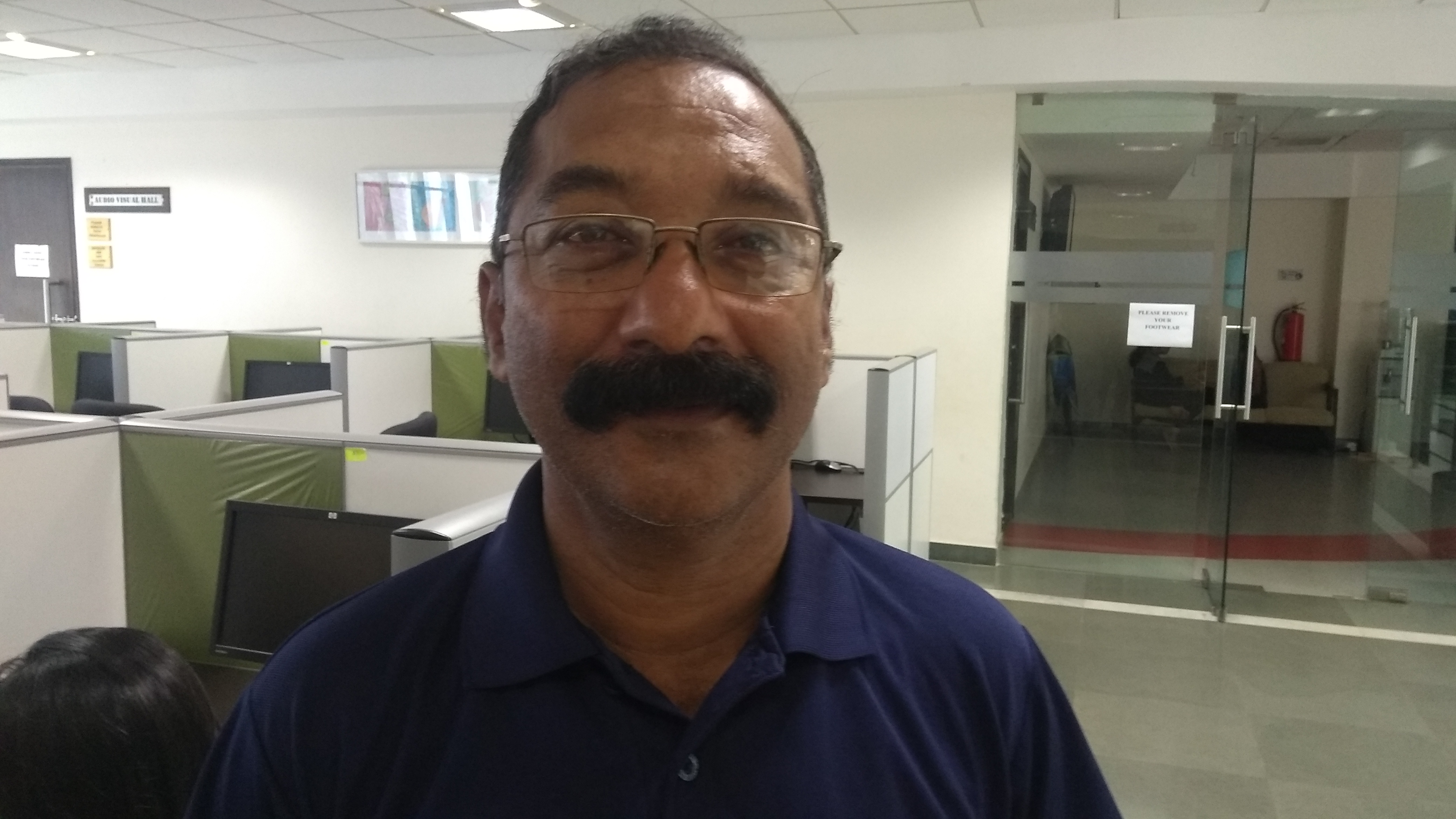 John Aguiar, Konkani poet from Goa, India.